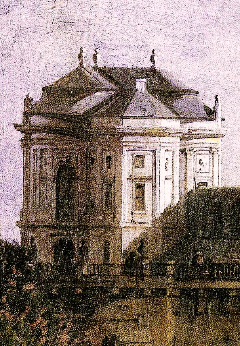 Zweites Belvedere